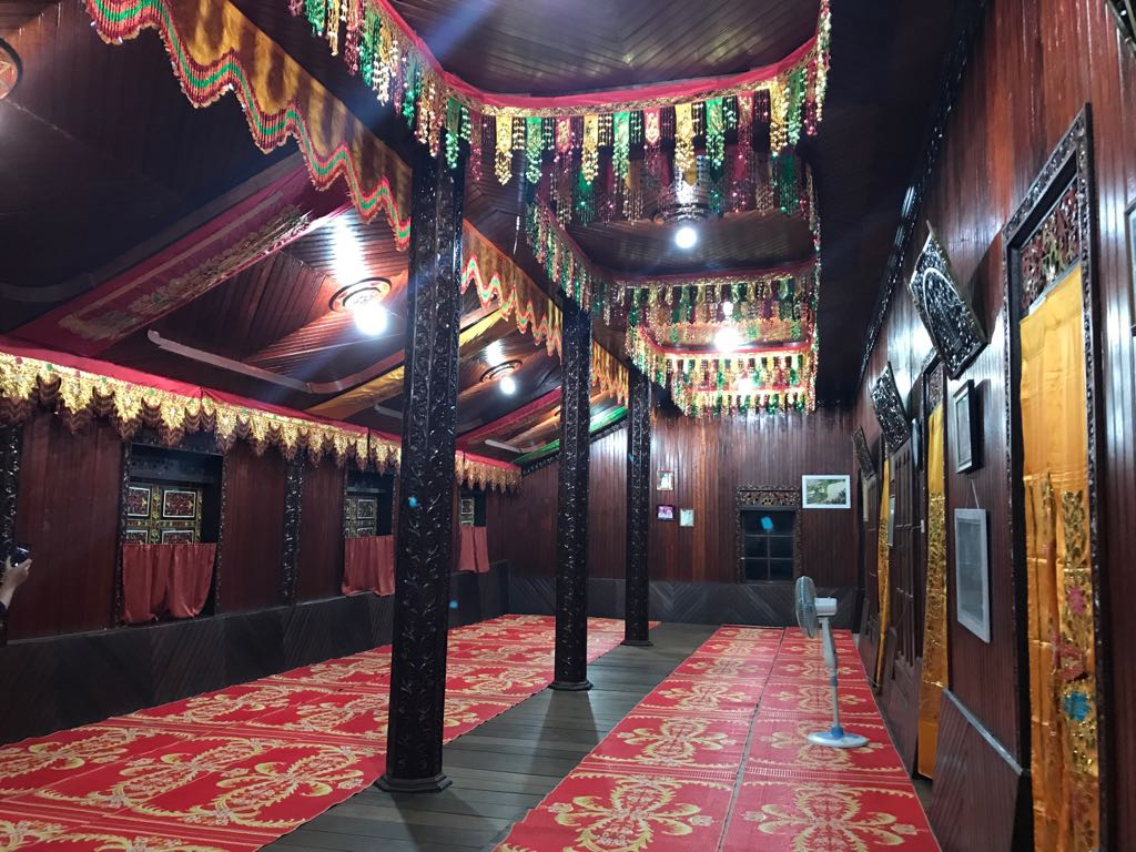 Saribu Rumah Gadang